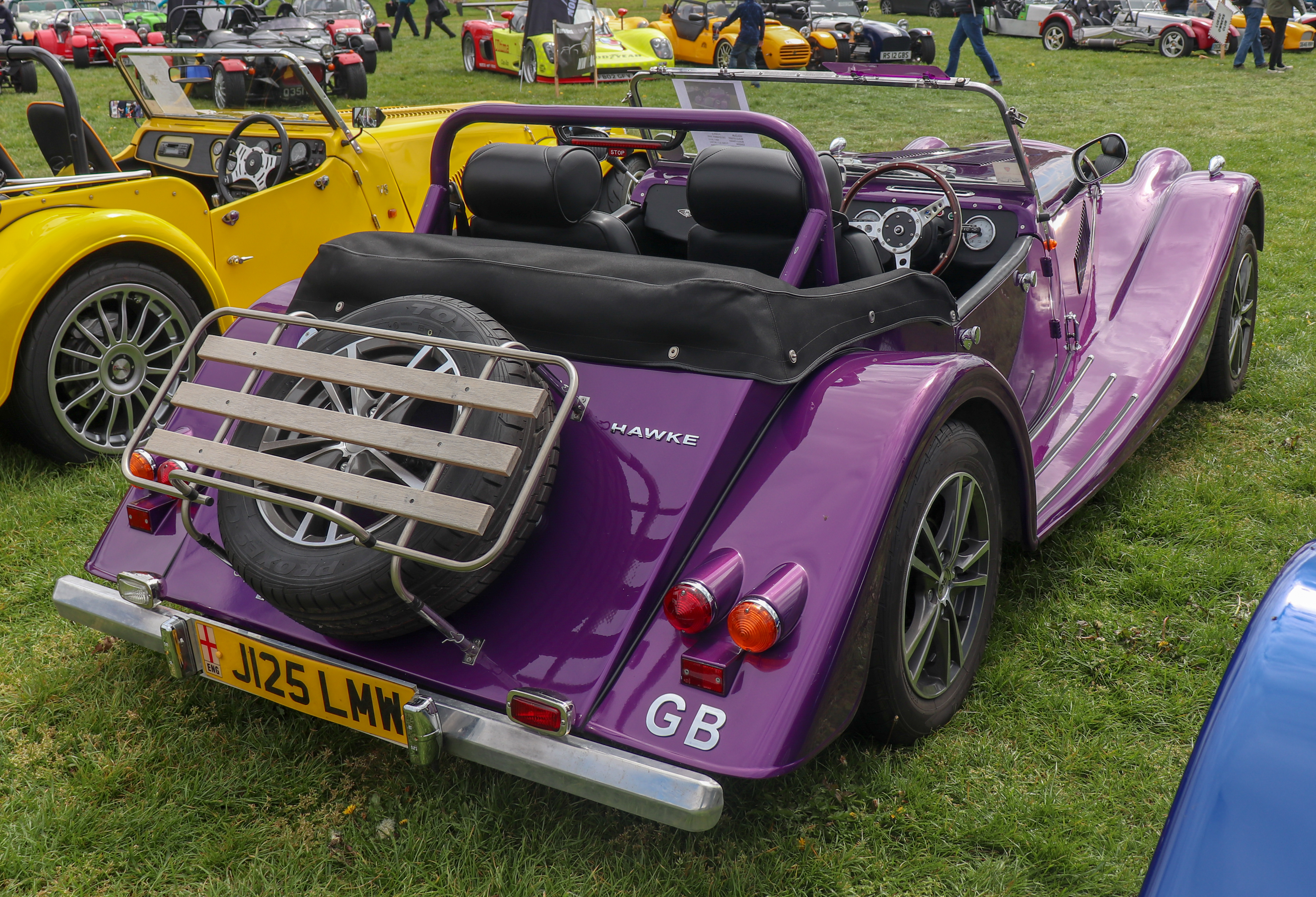 2013 LCD Hawke 2.0 Rear Taken at the Stoneleigh National Kit Car Motor Show 2019